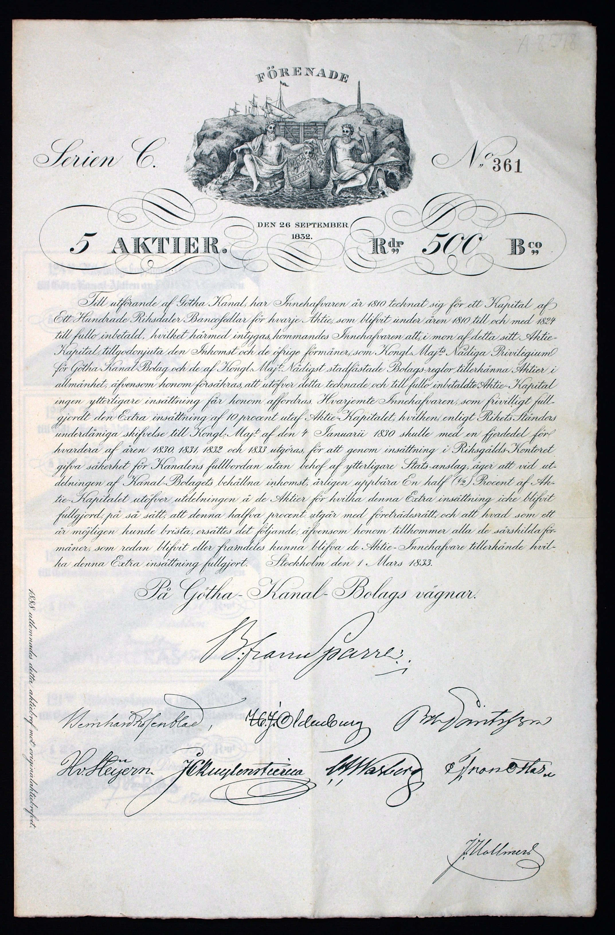 Share of the Göta Canal, issued 1. March 1833